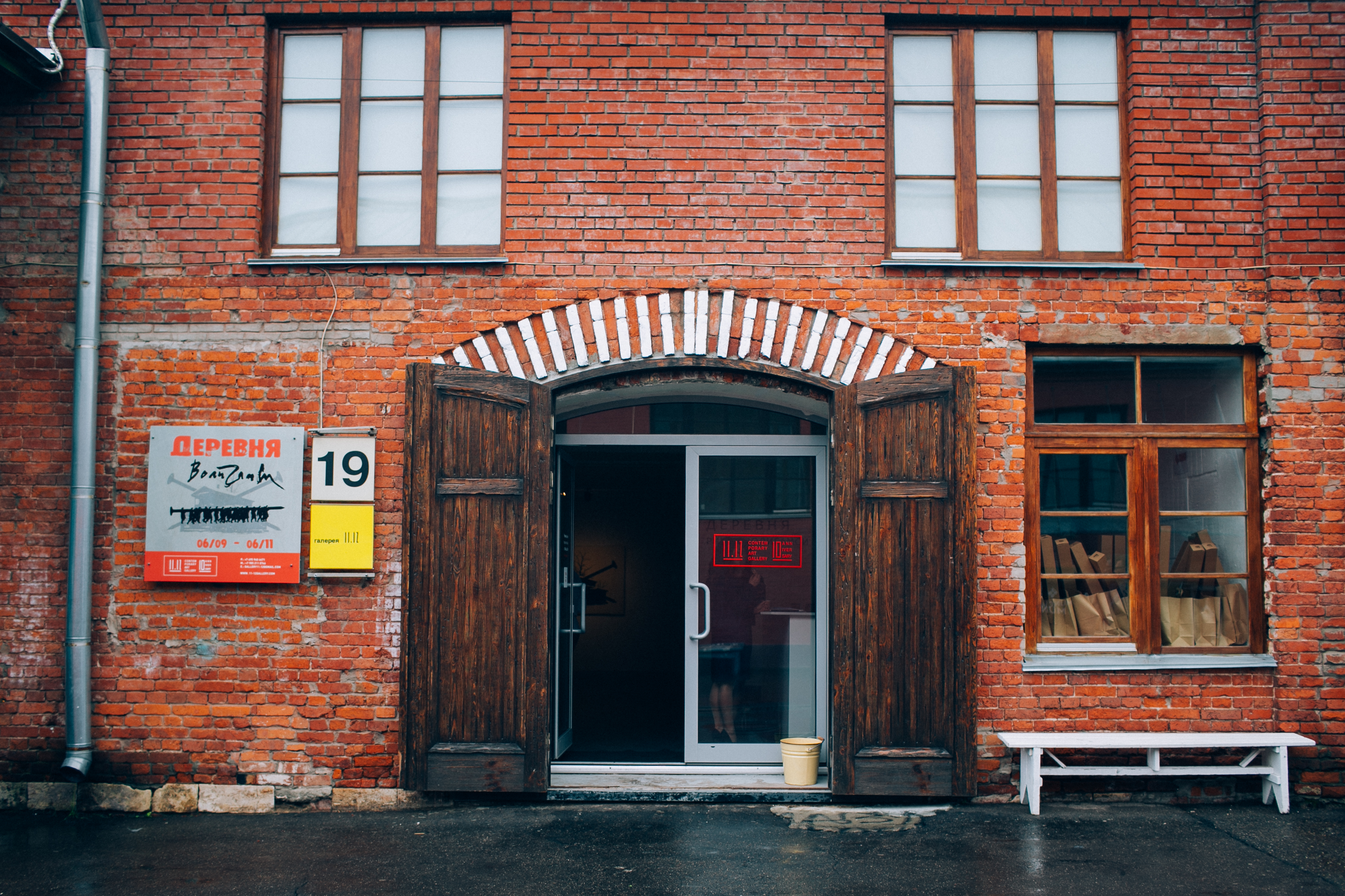 11.12 GALLERY Winzavod